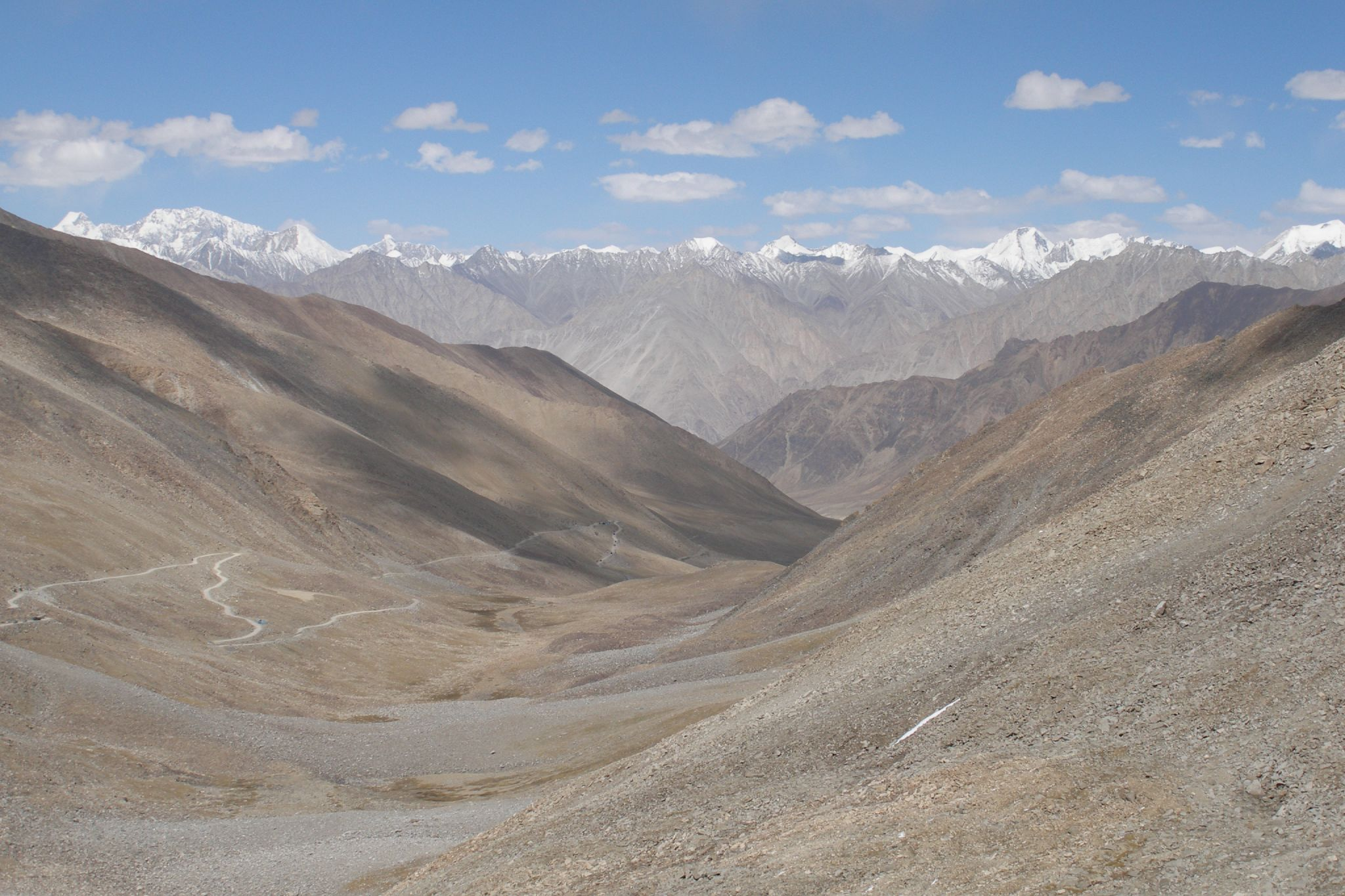 Eastern slopes of Khardung La, Ladakh Range, India. In the background some mountains of the southernmost subrange of the Karakorams: The Saser Muztagh. The broad summit on the left is Saser Kangri II, the peak on the far left is Saser Kangri III.